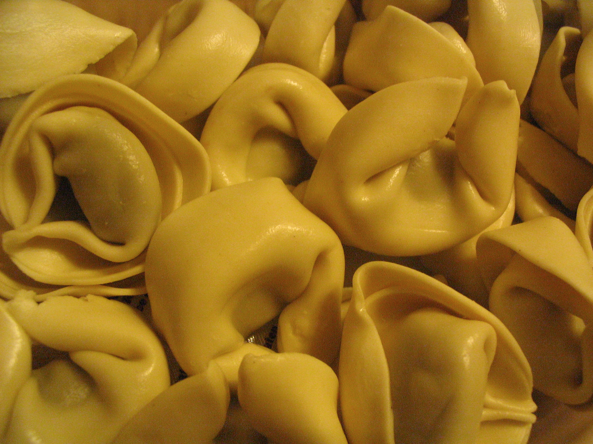 Fresh tortellini